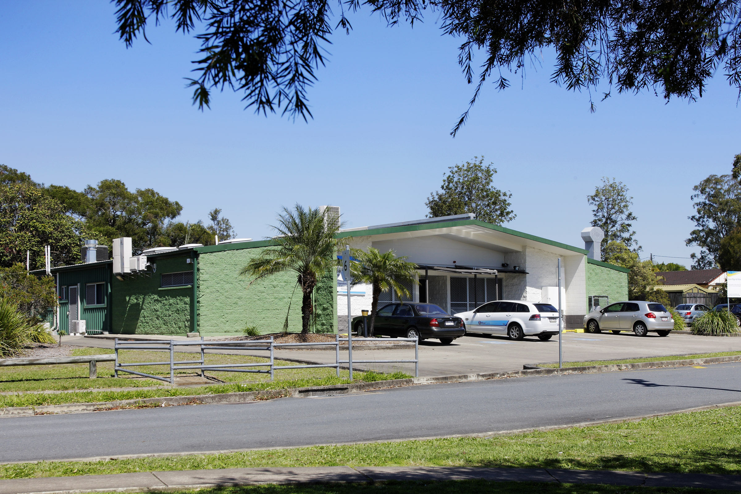 Acacia Ridge Hall is an old style brick building with vinyl covered concrete floor. Facilities include a ktichen, tables and chairs, disabled access, carparking, courtyard and a piano.